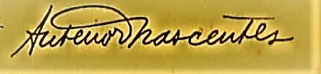 Antenor de Veras Nascentes signature.